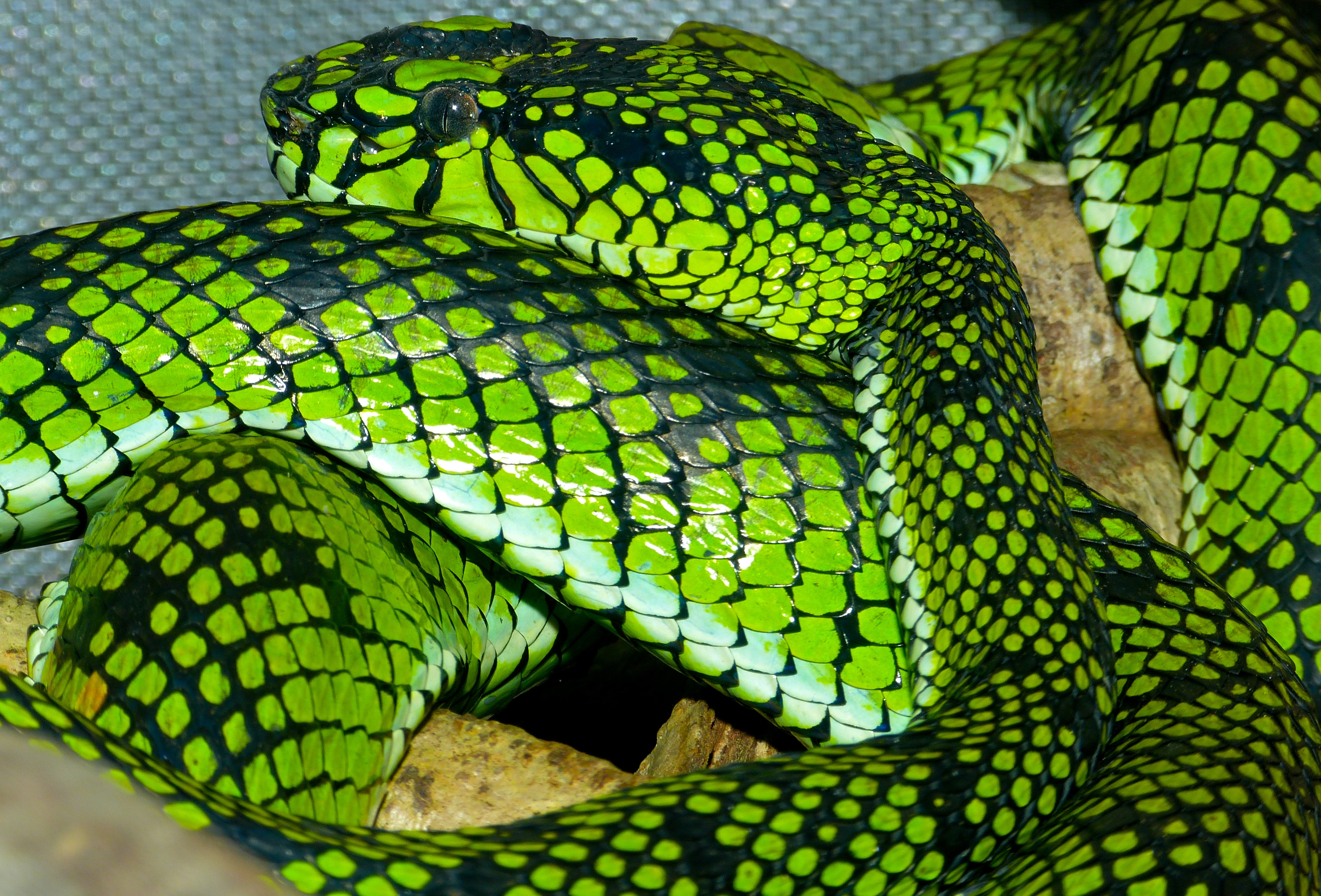 Butterfly Farm, Brinchang, Cameron Highlands, Pahang, MALAYSIA